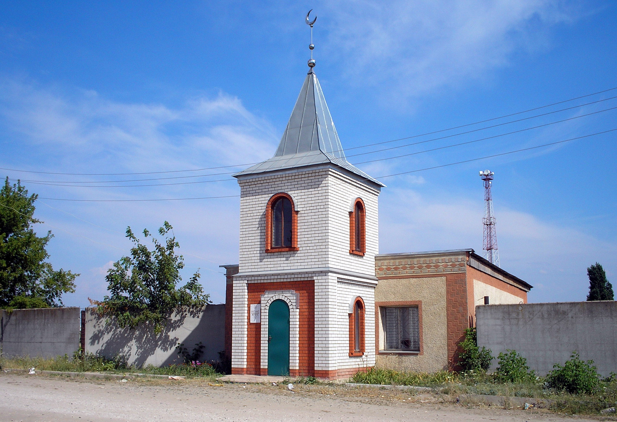 Atkarsk. Cathedral mosque